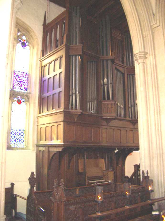 St Martin's Church, Stamford